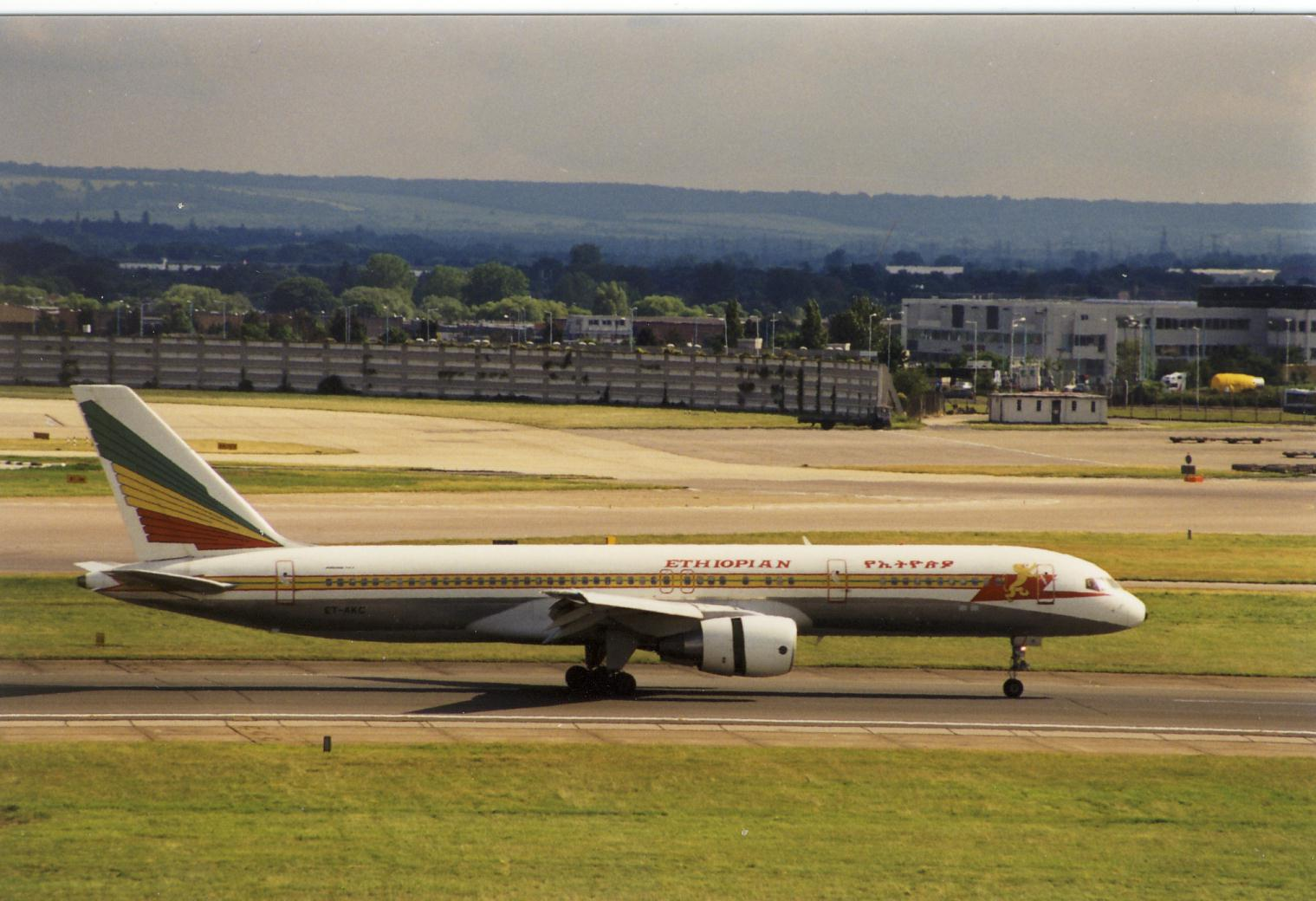 Ethiopian Airlines Boeing 757-200 in London Heathrow.